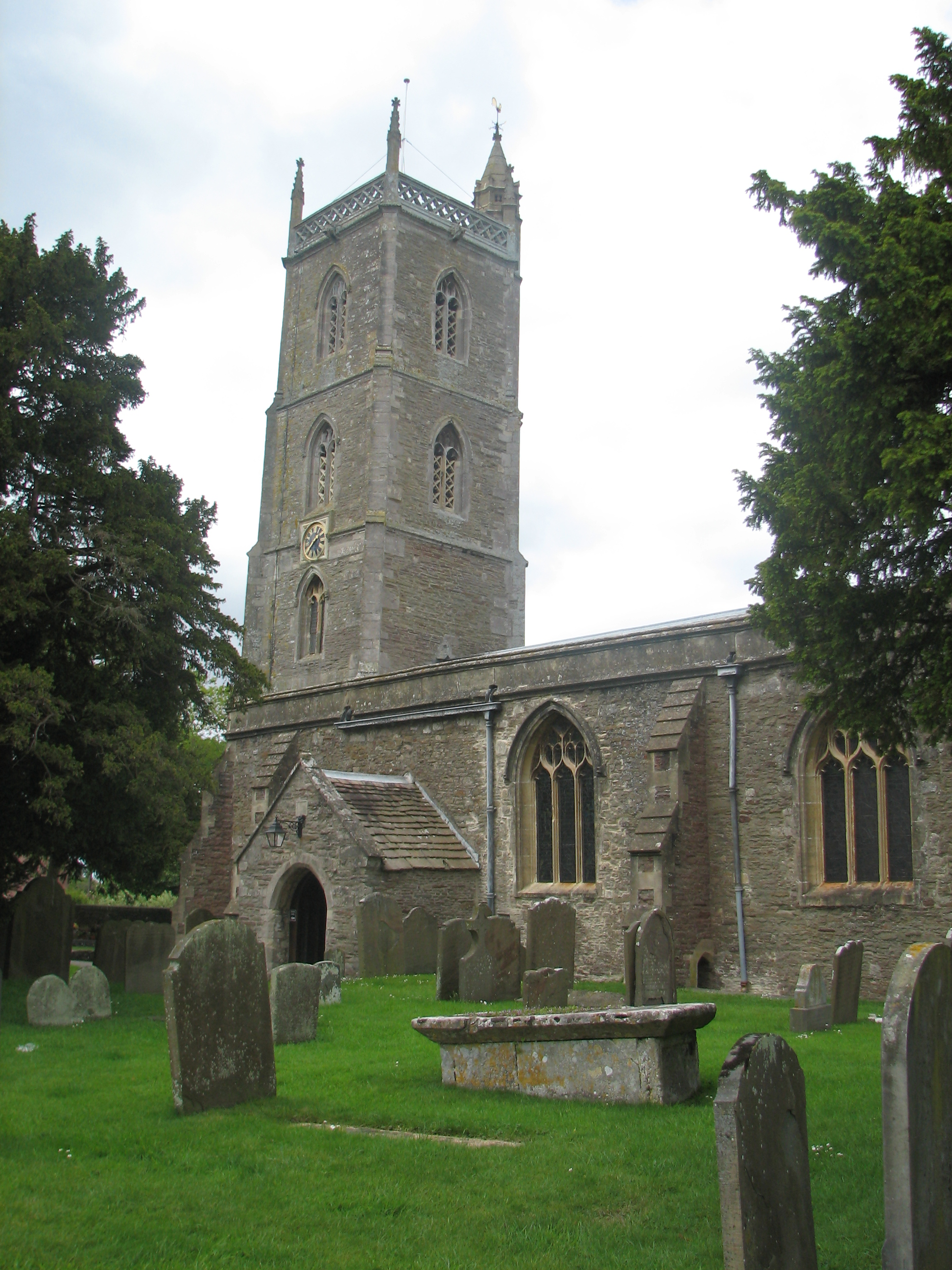 A view of Holy Trinity Church, Nailsea, North Somerset, UK